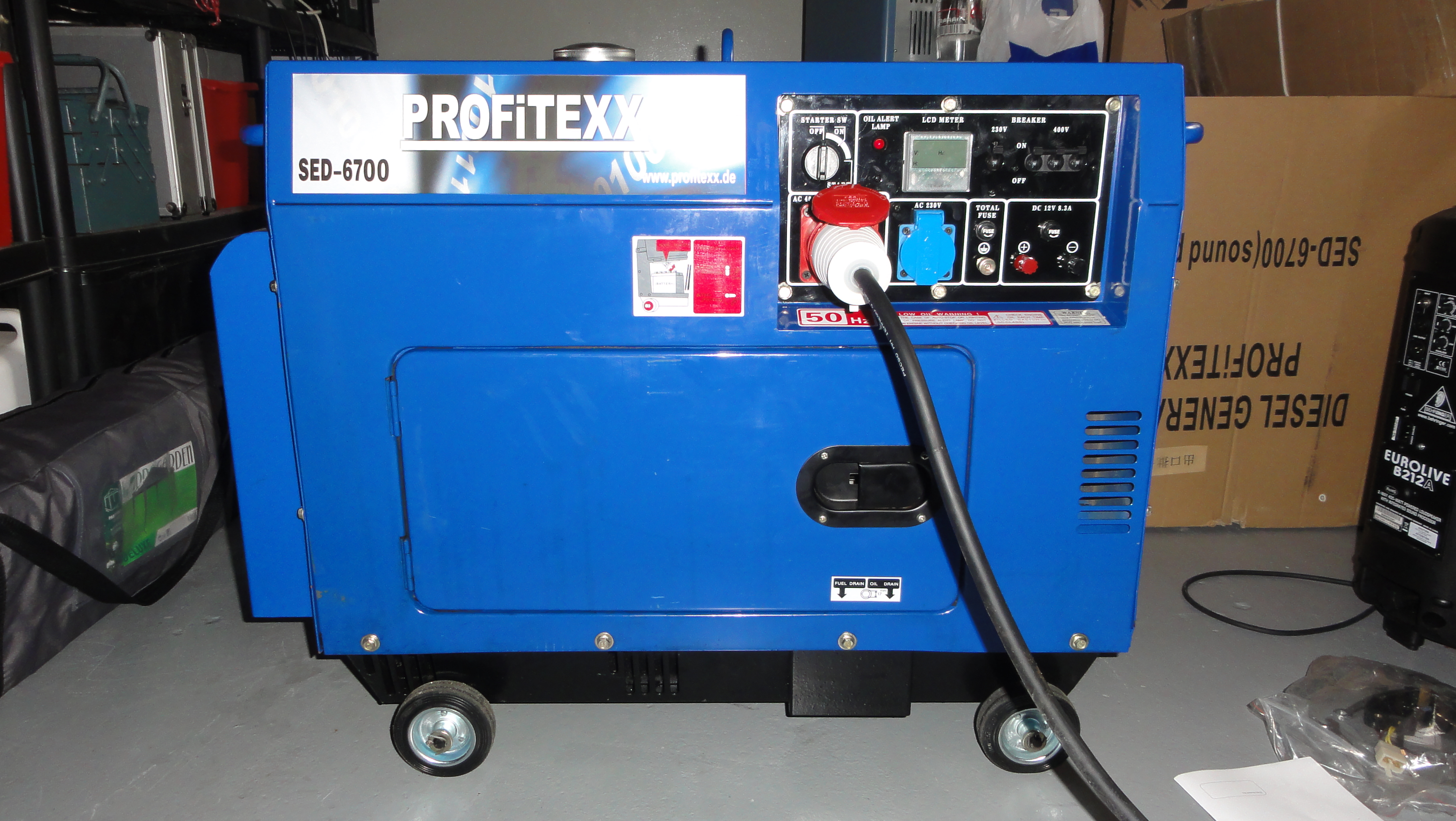 A 6000 kVA diesel generator